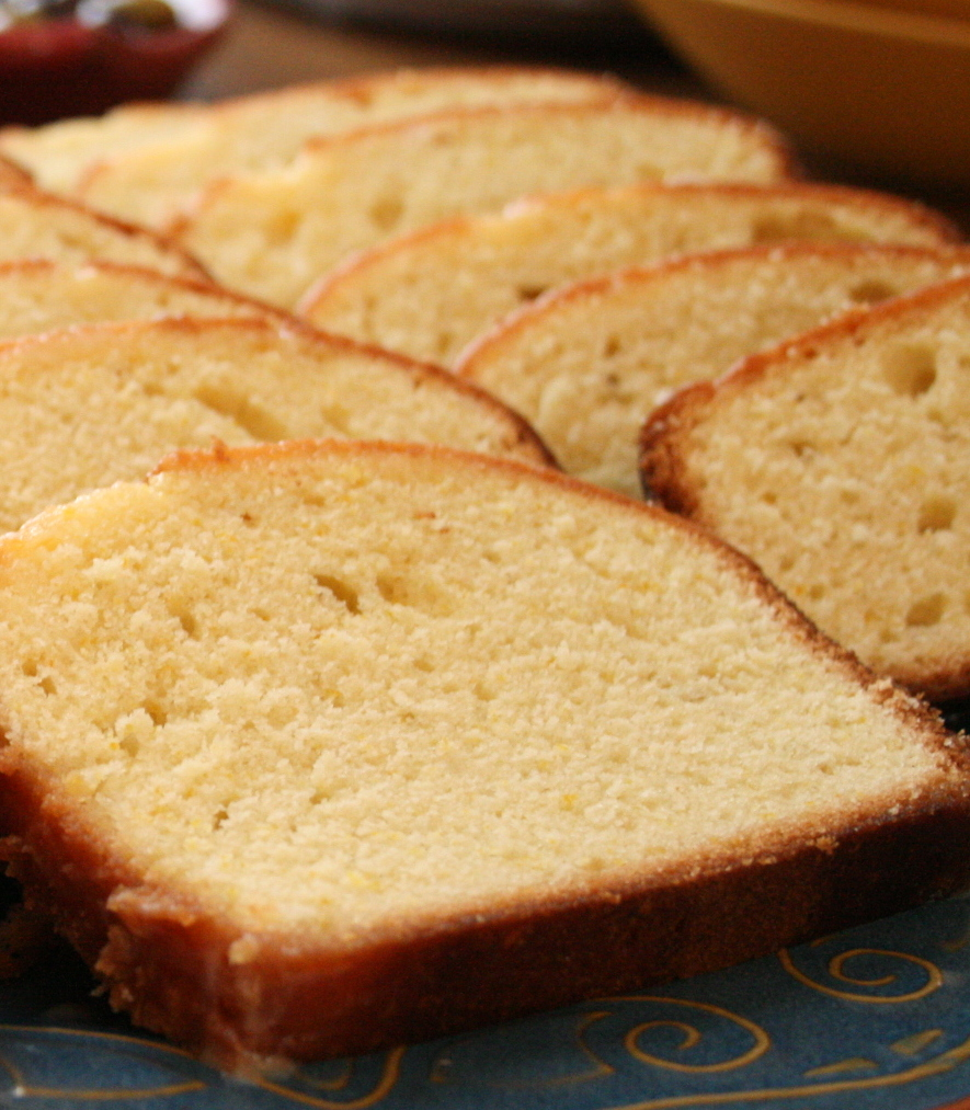 Strawberries and pound cake.